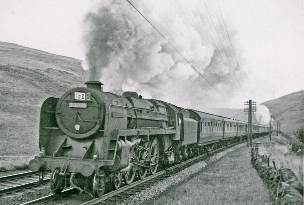 Down relief Liverpool and Manchester to Glasgow express near Beattock Summit. View SE, on the upper mile or so of the gruelling 10-mile climb up from Beattock station. BR 'Clan' Class 6 4-6-2 No. 72001 'Clan Cameron' definitely needs the banking engine it has at the rear of its long train. It is difficult to be certain of the precise location of the picture, on the long and desolate stretch of the upper Evan Valley (on the border of Dumfries- and Lanarkshires) where nowadays the main line and A74 are now also paralleled by the M74 Motorway - a great location for railway photography.